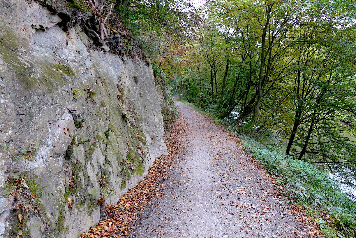 "Blade track" - the tourist marked route around the German city of Solingen (Northern Rhine-Westphalia). 5th stage: along the river Wupper. 9,2 km.